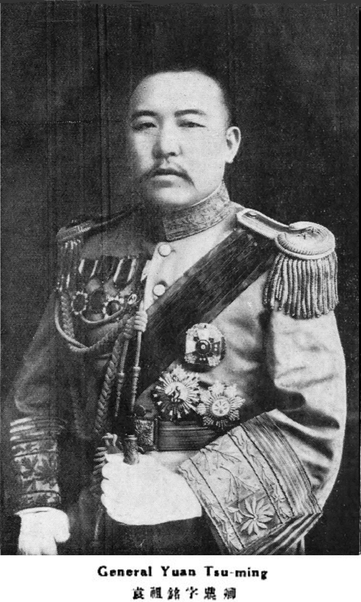 Yuan Zuming (1889 - 1927)